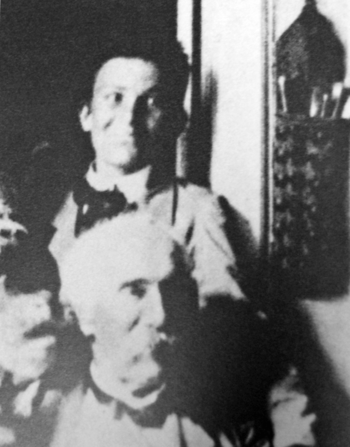 Amedeo Modigliani at the G. Micheli studio when they received a visit of the renowed G. Fattori in 1898.